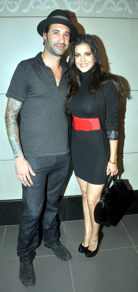 Sunny Leone,Daniel comes to India to promote 'Jism - 2'